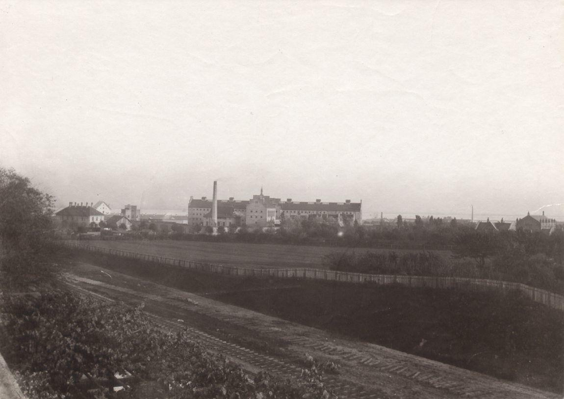 Vestre Fængsel seen from Gammel Carlsberg in Copenhagen, Denmark